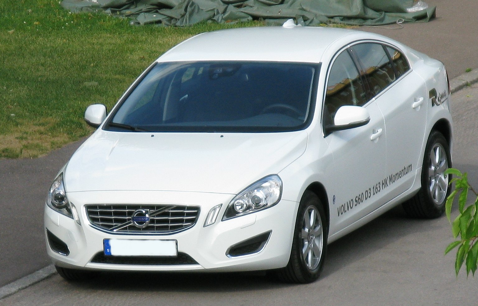 Volvo S60 II